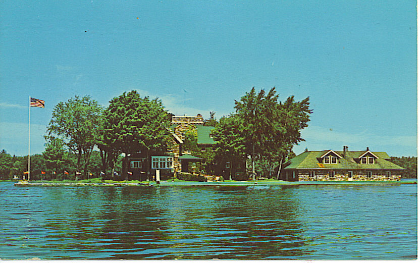 Postcard of Longue Vue Island taken during Dollinger Corporation ownership. The flags around the island were national flags that Leslie Dollinger would fly on the main flagpole when ships went past. He had a ritual for this, flying the flag and ringing a bell and tooting a horn when ships went past the island. Nowadays, there is a porch on the top of the boathouse, but aside from that, virtually no noticeable changes to the outside.